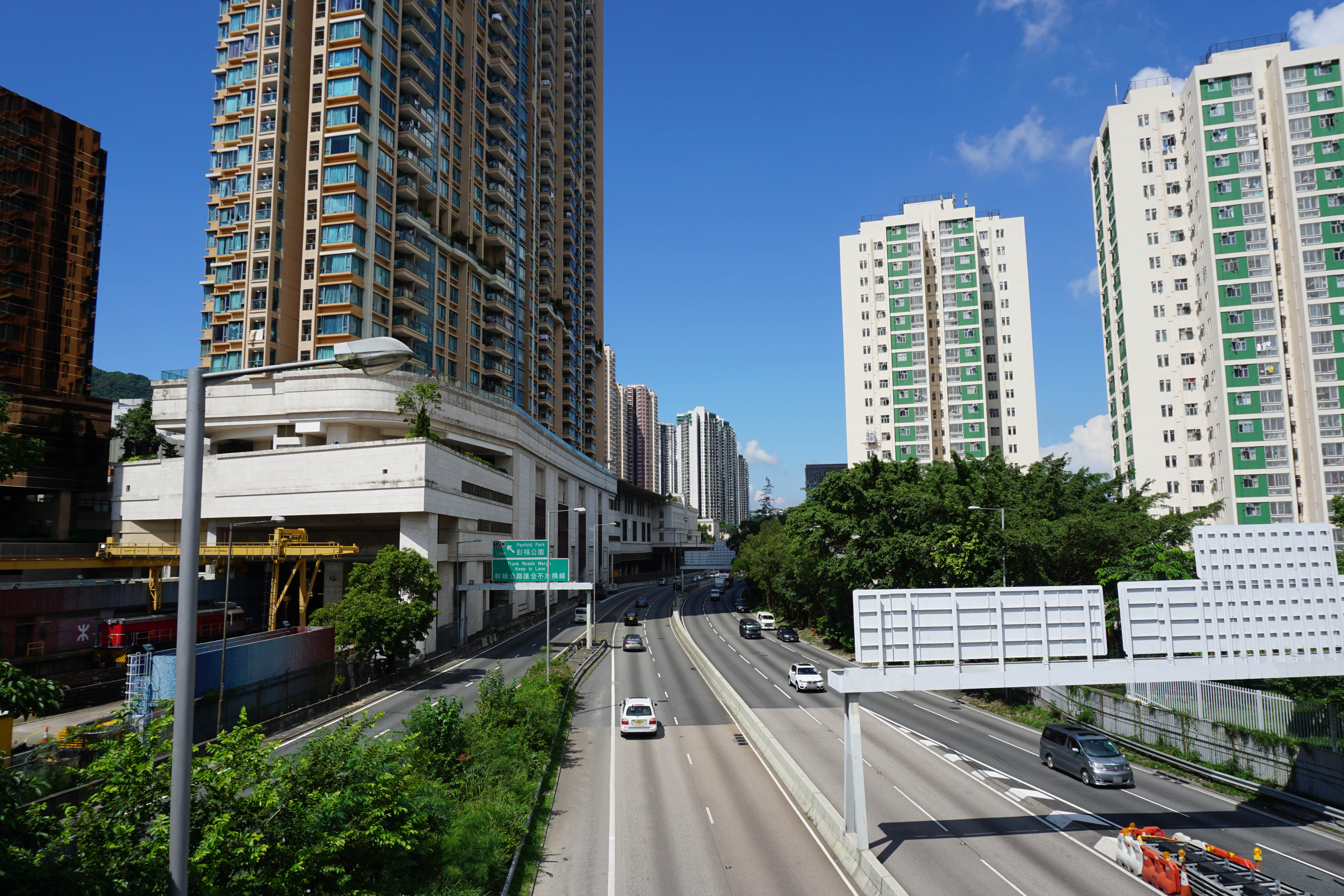 Tai Po Road in Fo Tan, Hong Kong.